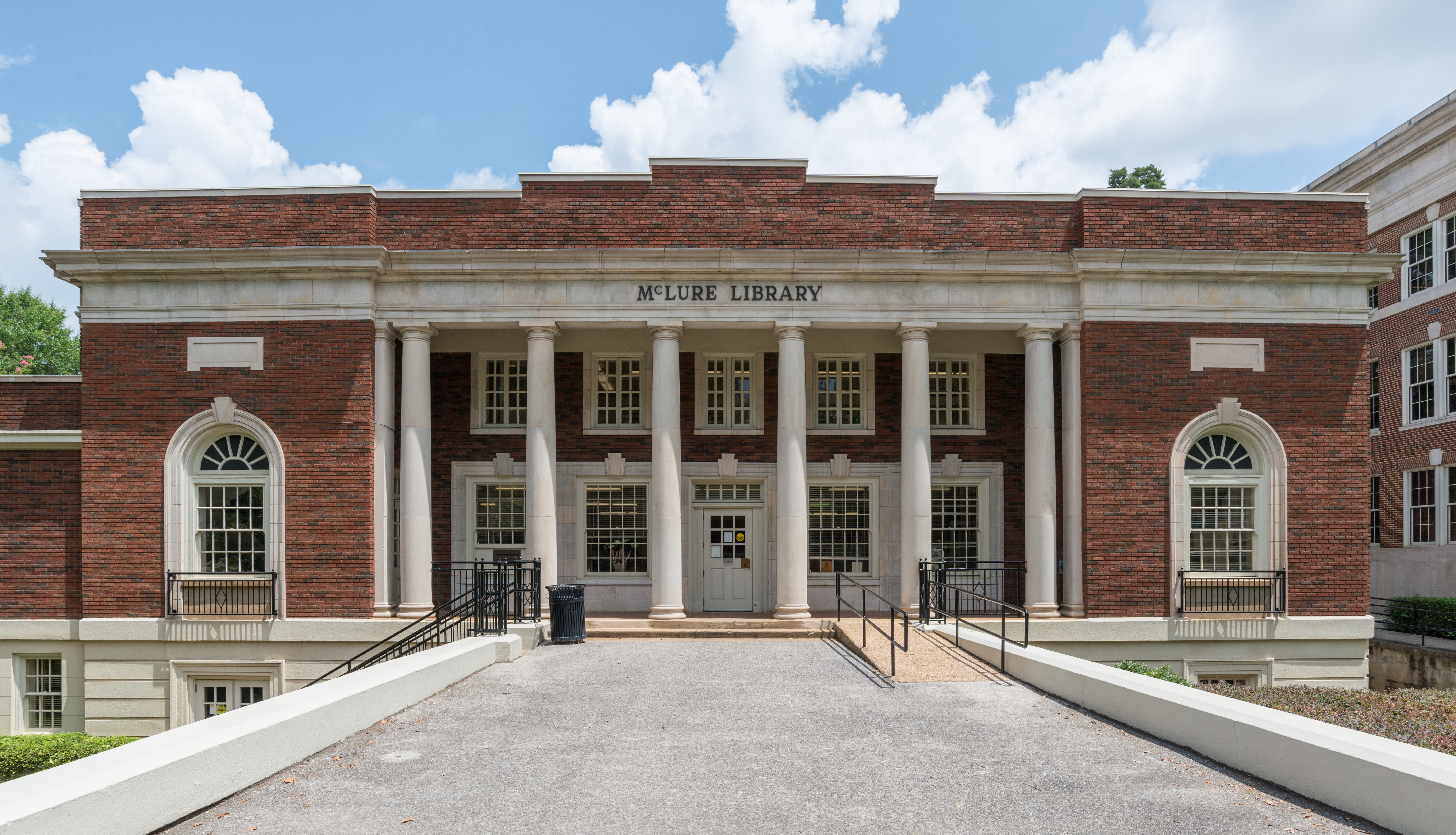 A south view of McLure Library, located on the campus of the University of Alabama, Tuscaloosa